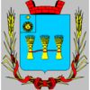 Coat of arms of Tulchyn Raion